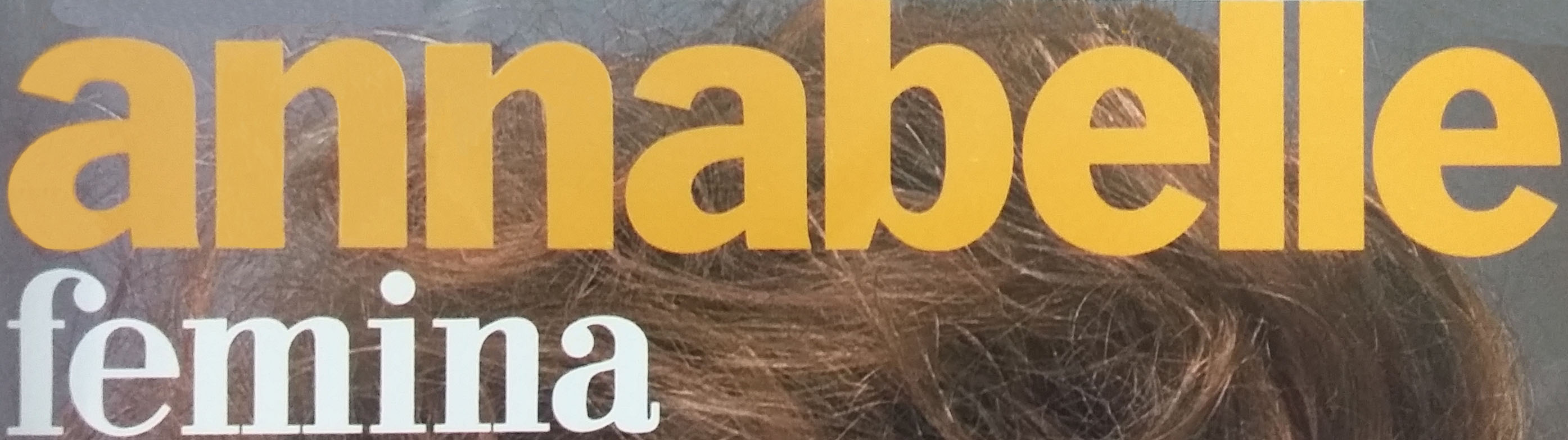 Former logo of the Swiss magazine Annabelle